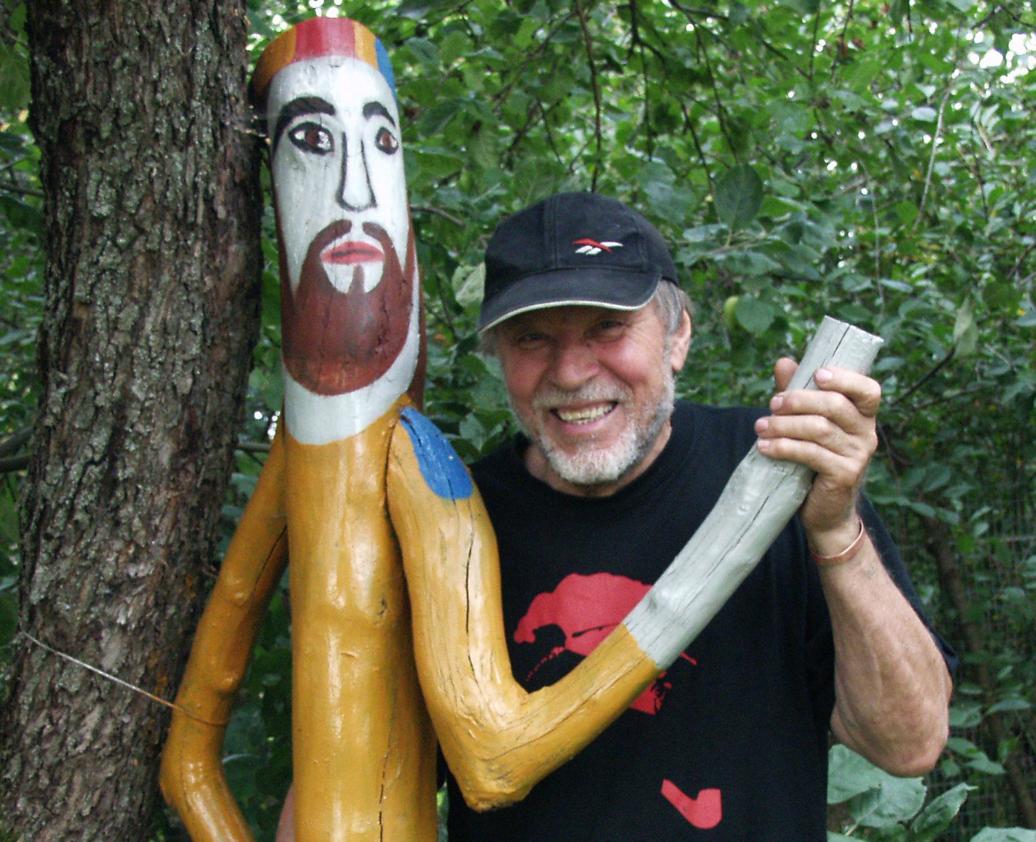 The artist with his oeuvre.